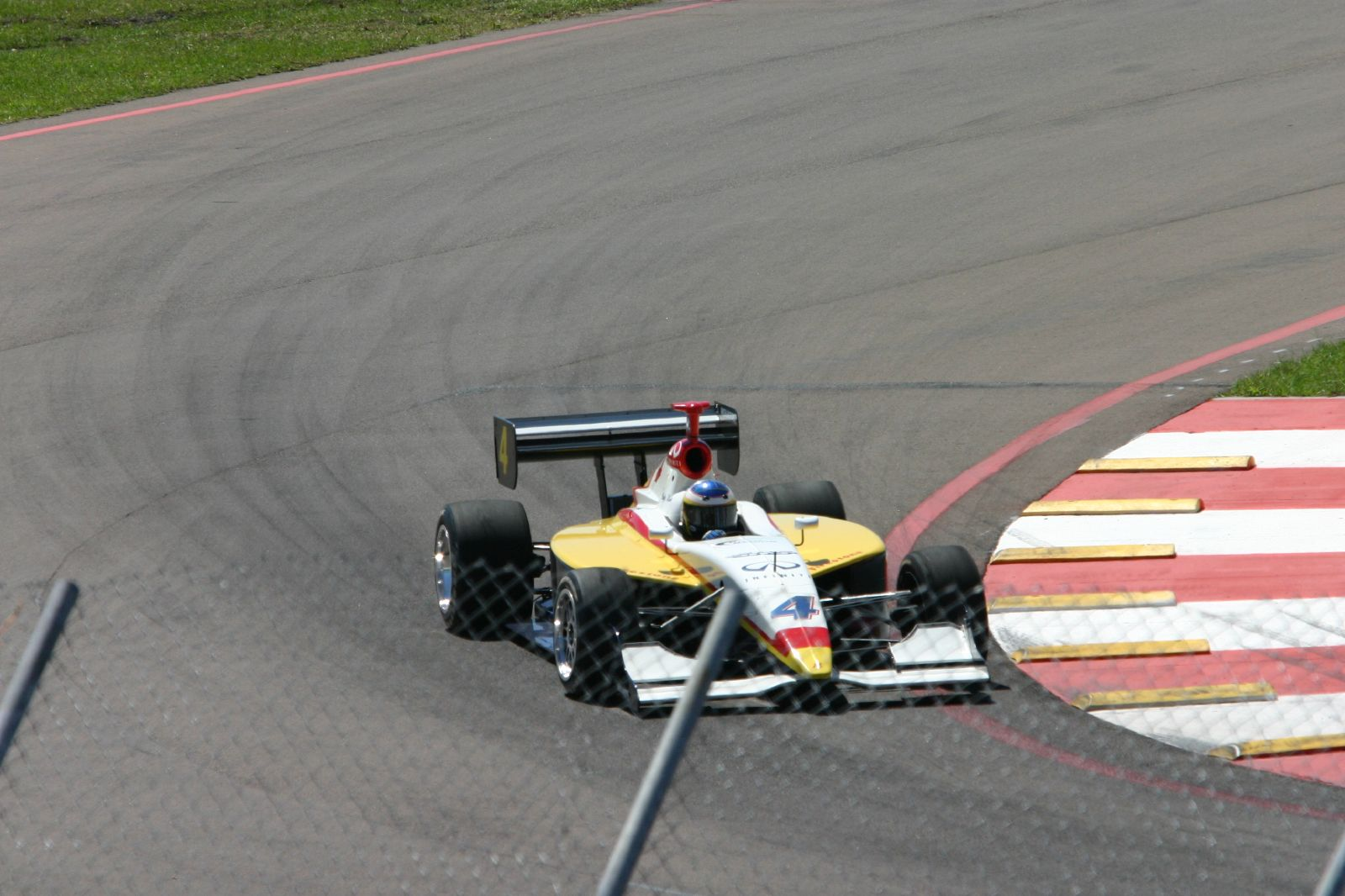 Marty Roth driving in the Infiniti Pro Series on the Streets of St. Petersburg in 2005.